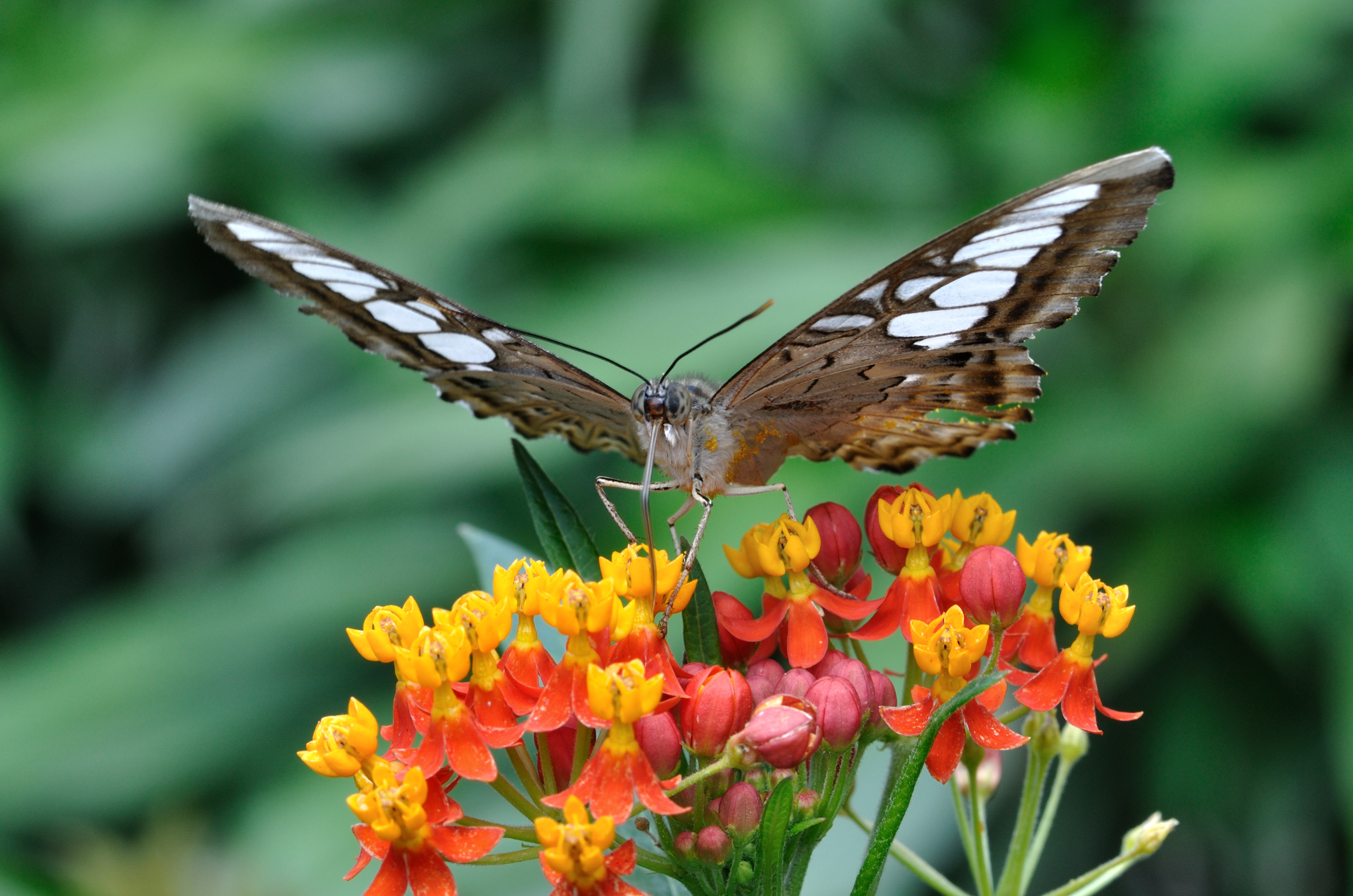 A Clipper (Parthenos sylvia) on Mexican Butterfly Weed (Asclepias curassavica) in the Wilhelma, Stuttgart, Germany.